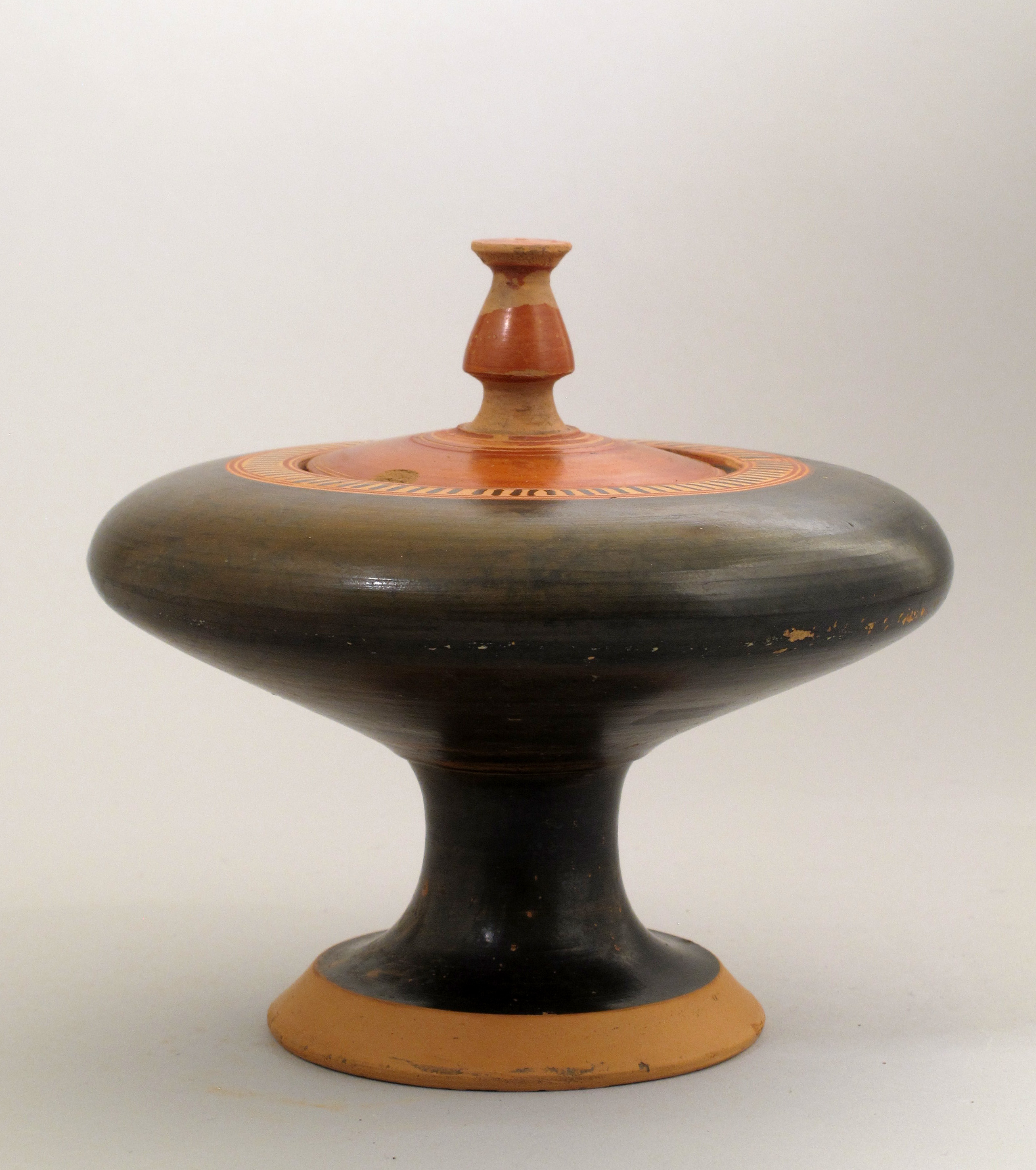 Greek, Attic; Exaleiptron with lid; Vases; The rim curves in to prevent spilling.